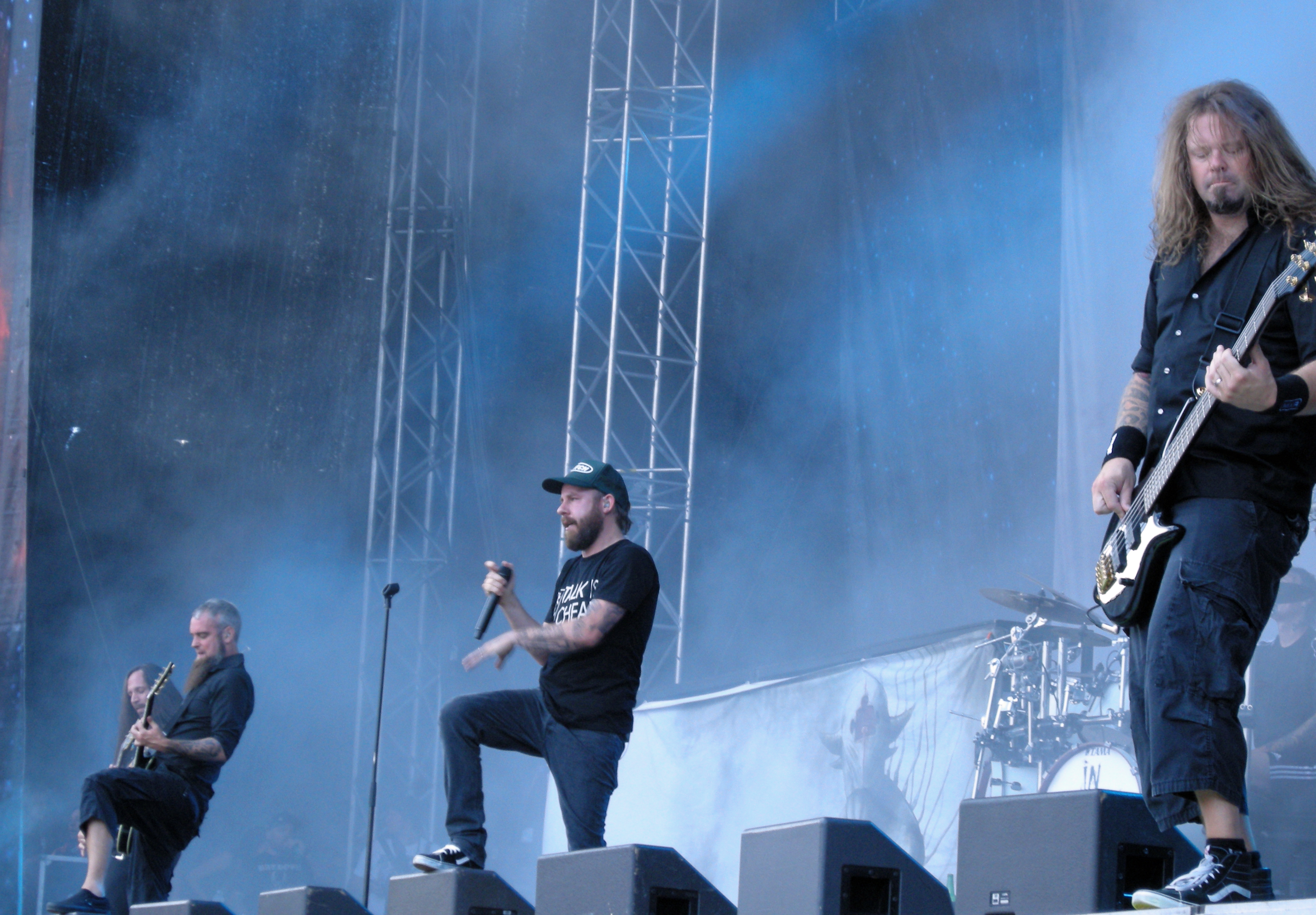 In Flames at Sonisphere Festival, Stockholm, Sweden 2011. Niclas Engelin, Björn Gelotte, Anders Fridén and Peter Iwers